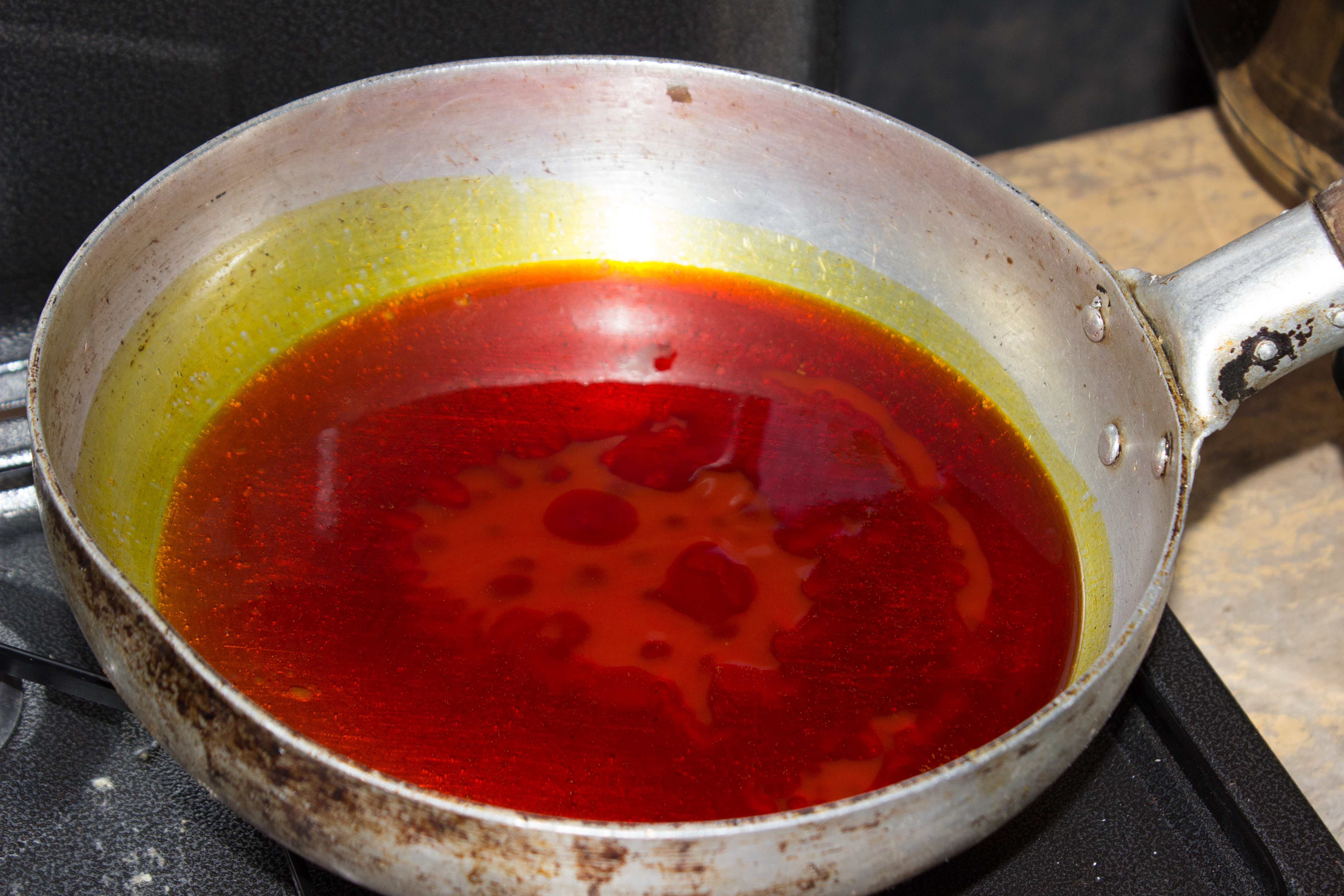 This is an image of food from Ghana